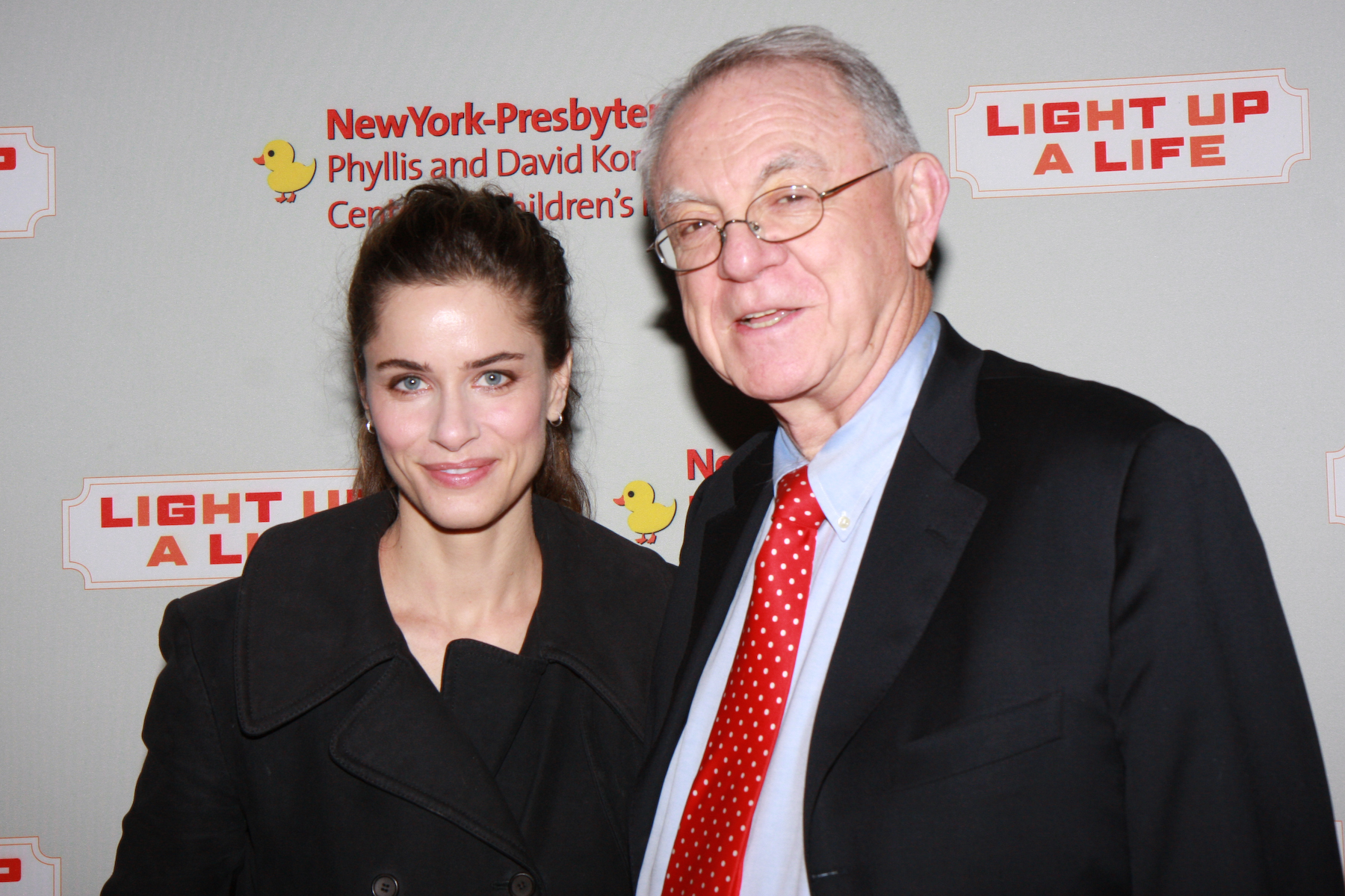 Amanda Peet and Dr. Herbert Pardes October 17, 2009 at the 21st annual Light up a Life benefit for pediatric care hosted by The Komansky Center for Children's Health at NewYork-Presbyterian/Weill Cornell Medical Center. Photo Credit: Cutty McGill